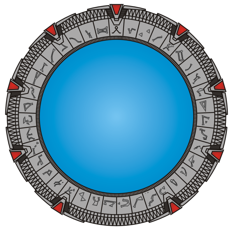 A colored drawing of the fictional Stargate in Cheyenne Mountain